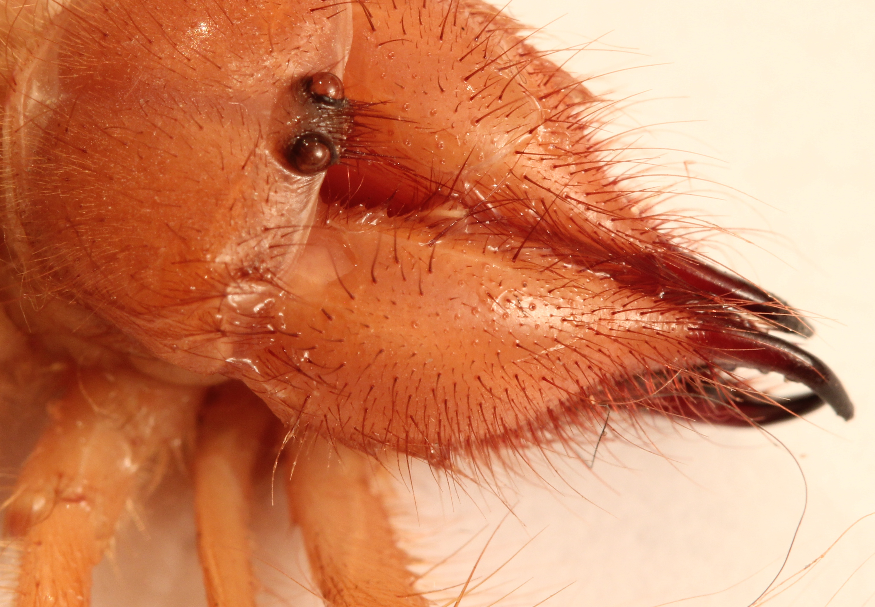 Solifugae Solpugidae showing remarkably large "simple" eyes with bristles that perhaps serve protective function while feeding